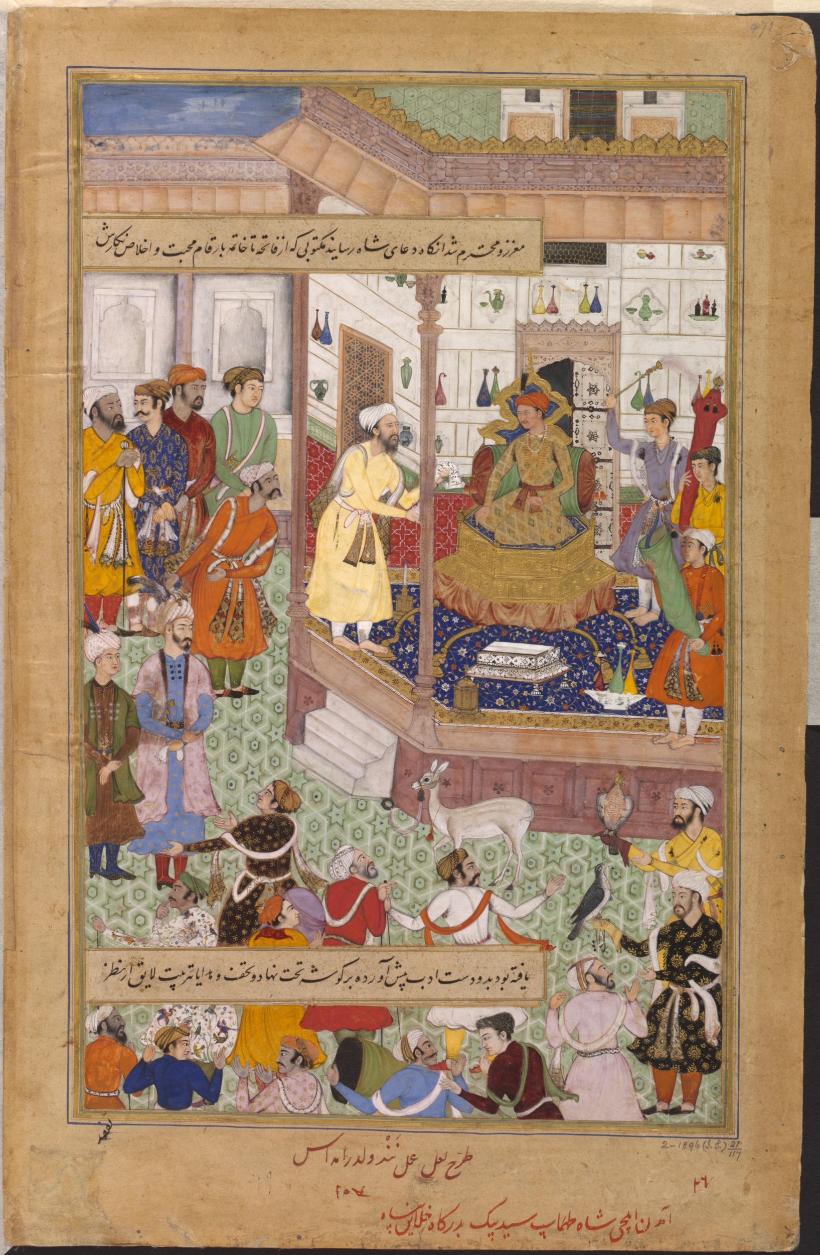 La'l. Akbar receiving Sayyed Beg ambassador of Shah Tahmasp I in 1562, Akbarnama, ca. 1590 Victoria and Albert Mus. London